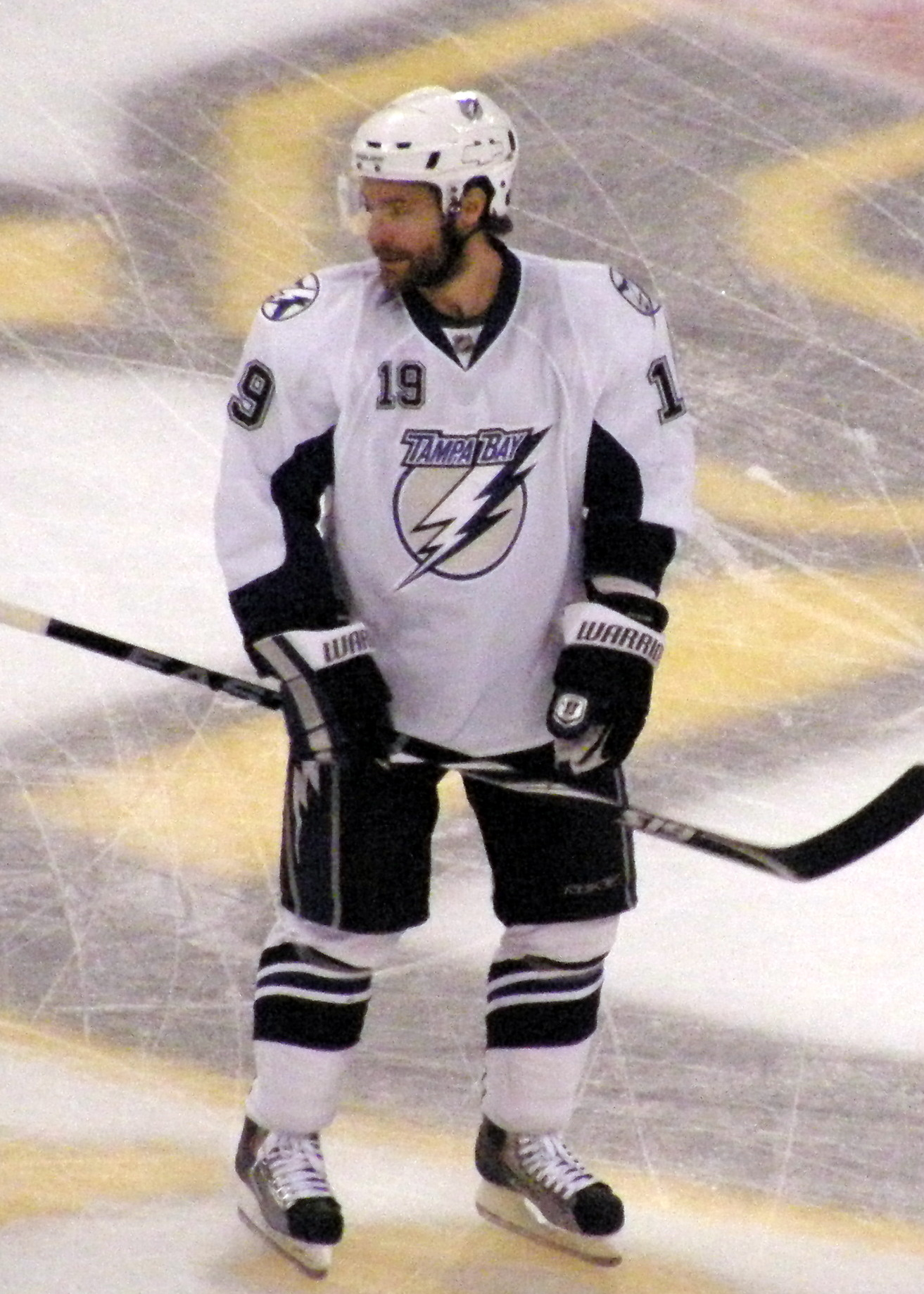 Eastern Conference Finals, Game 2, May 17, 2011. Tampa Bay Lightning at Boston Bruins, TD Banknorth Garden